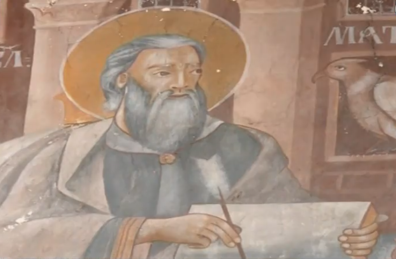 Saint George Vhurch in Garmen Fresco 1898